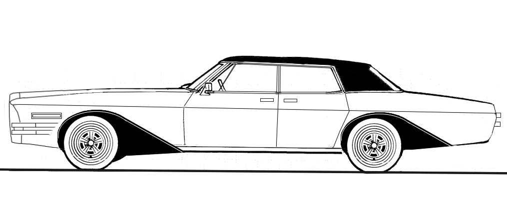 Duesenberg Model D (1964/66), graphic